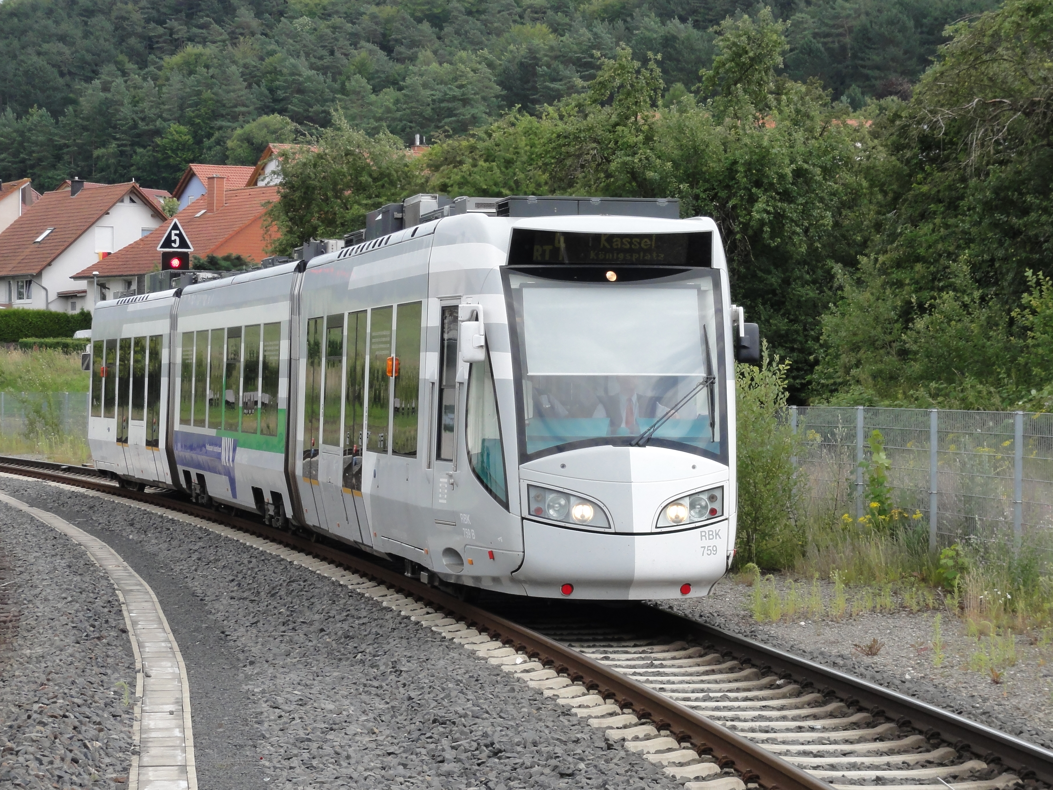 RBG Alstom Citadis Regio tram-train approaching Wolfhagen